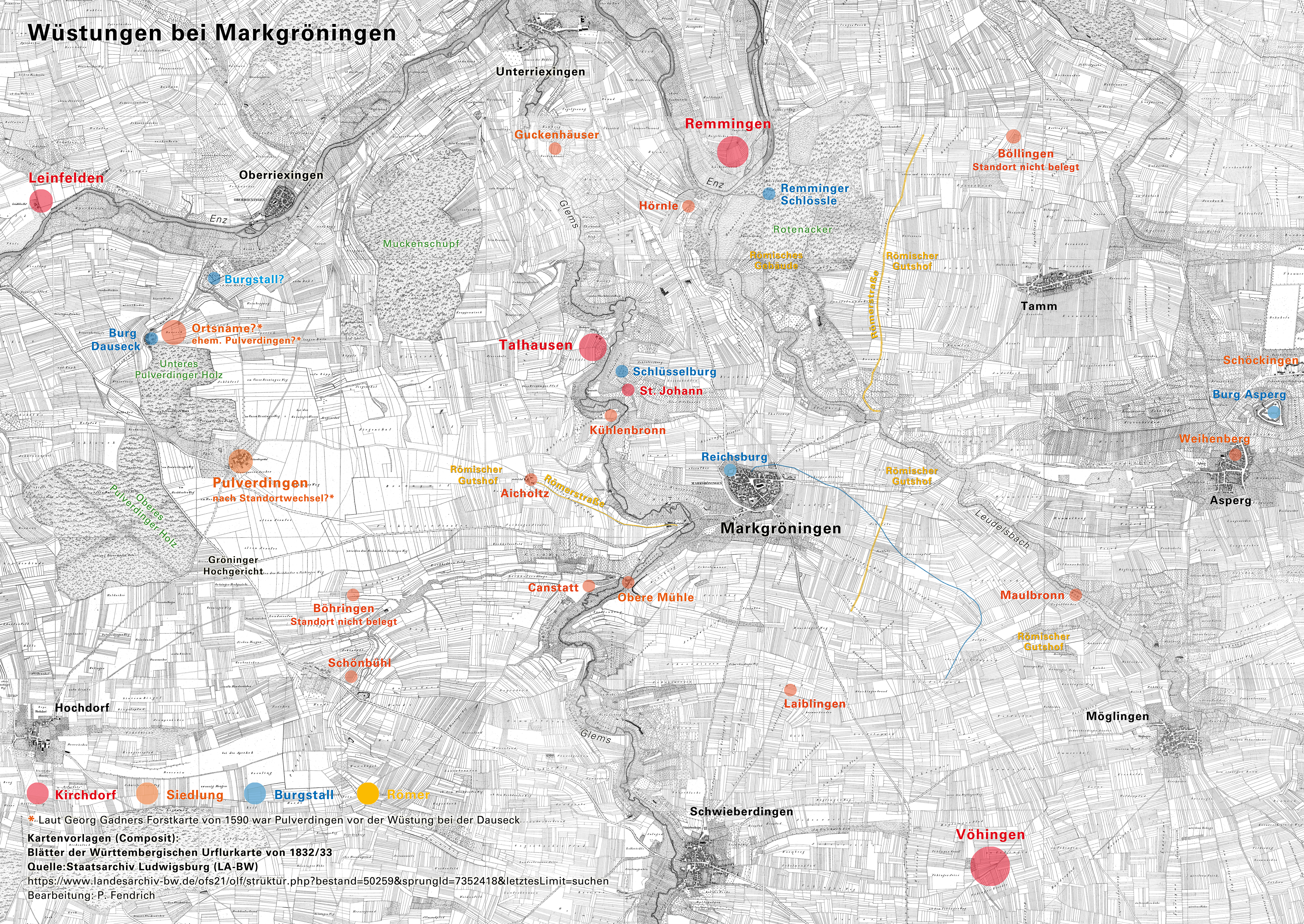 Abandoned villages near Markgröningen